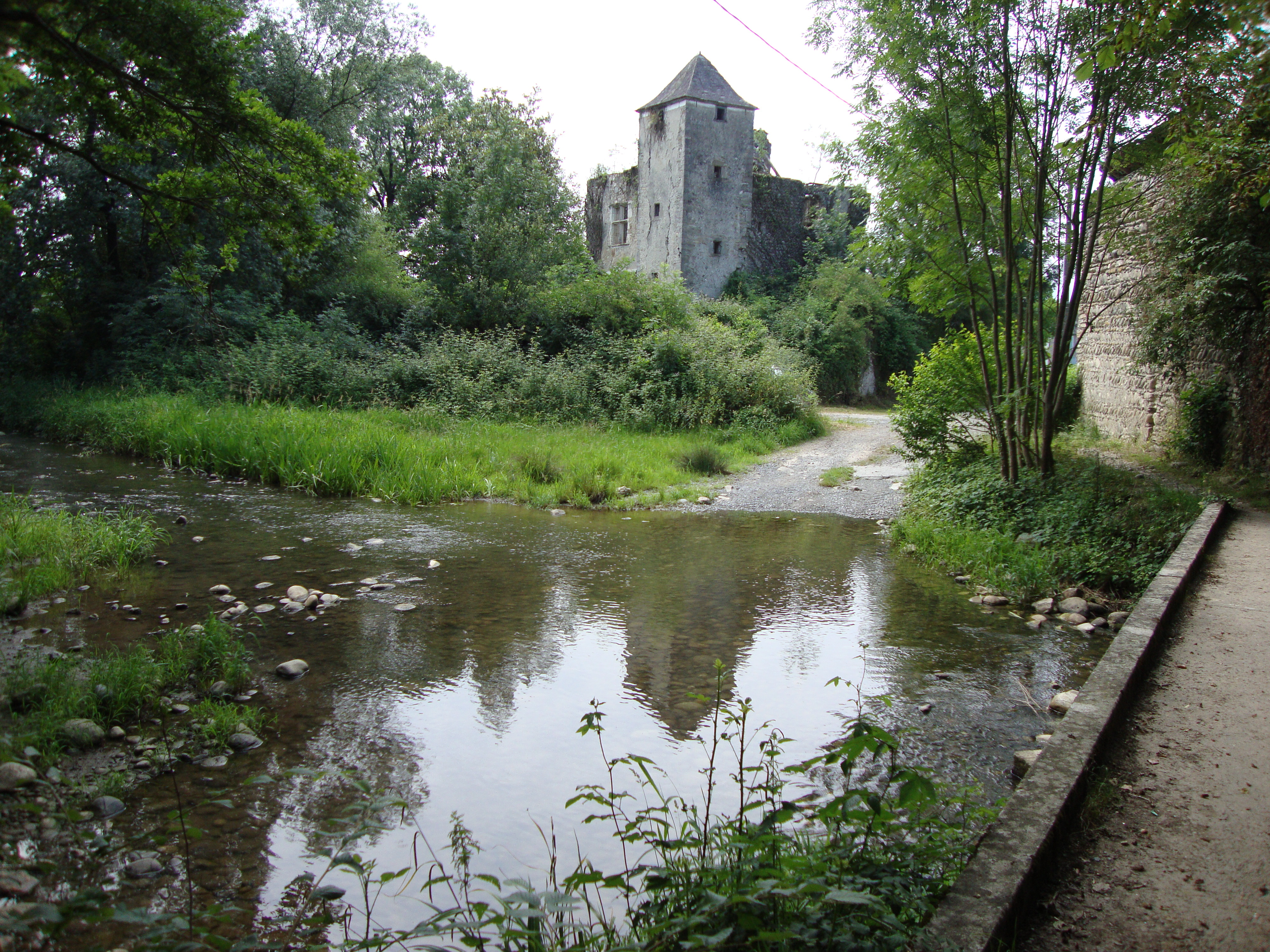 Précilhon (Pyr-Atl, Fr) the castle and its mirror image in the Escou river